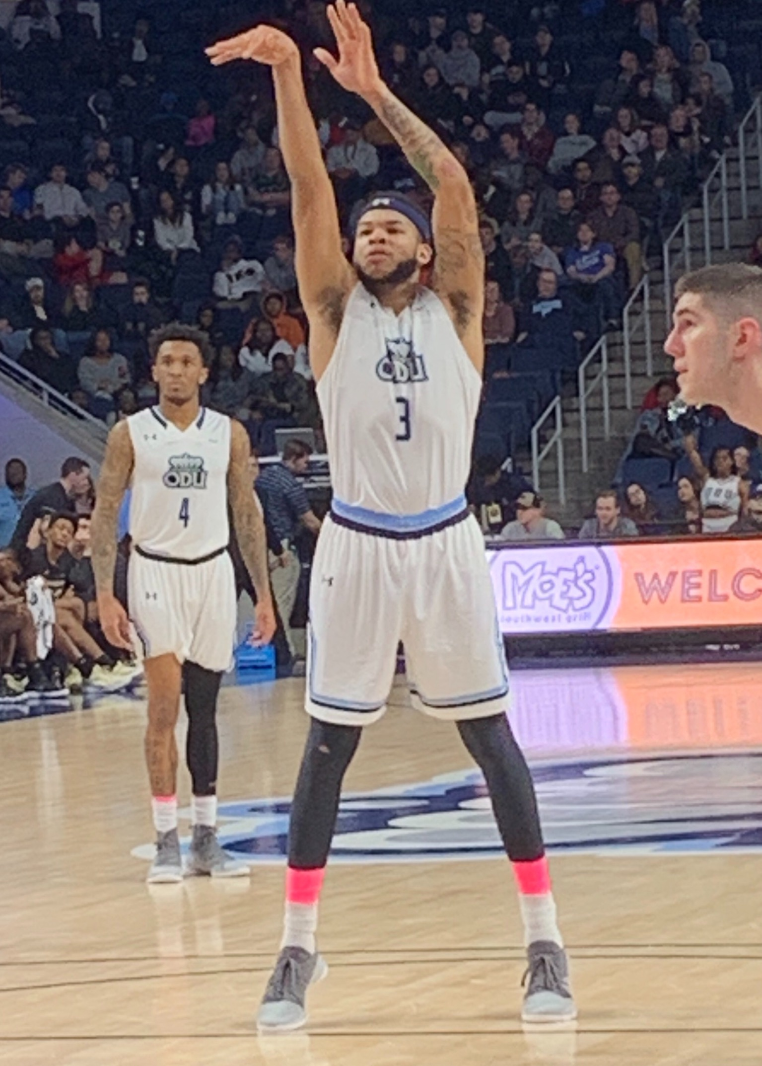 Old Dominion University basketball player B. J. Stith from a February, 2019 game